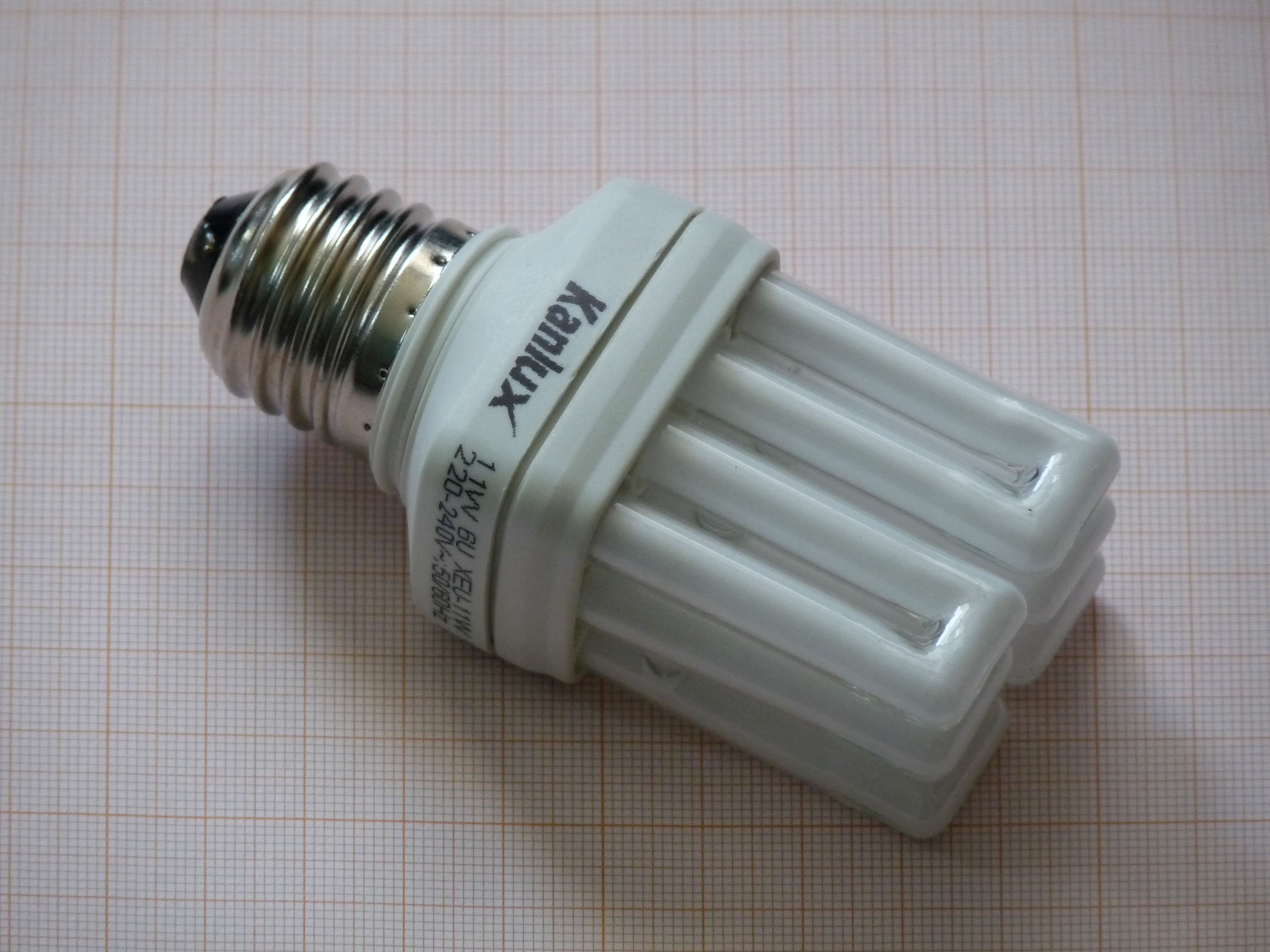 Kanlux CFL with E27 screw